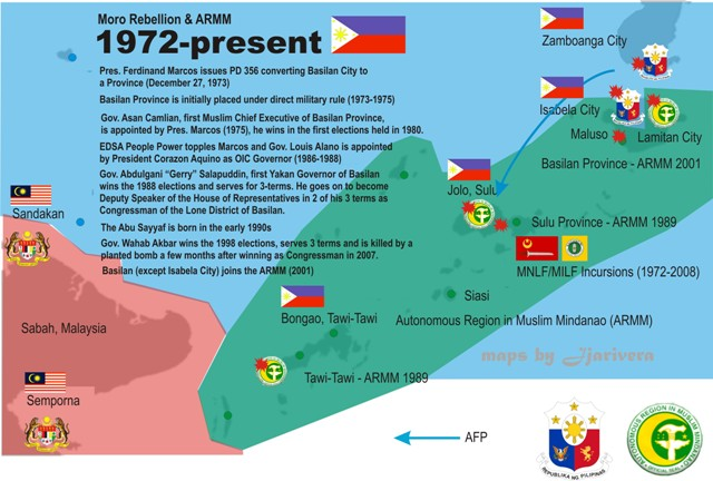 1972 to present map of the Sulu Archipelago, the Philippines